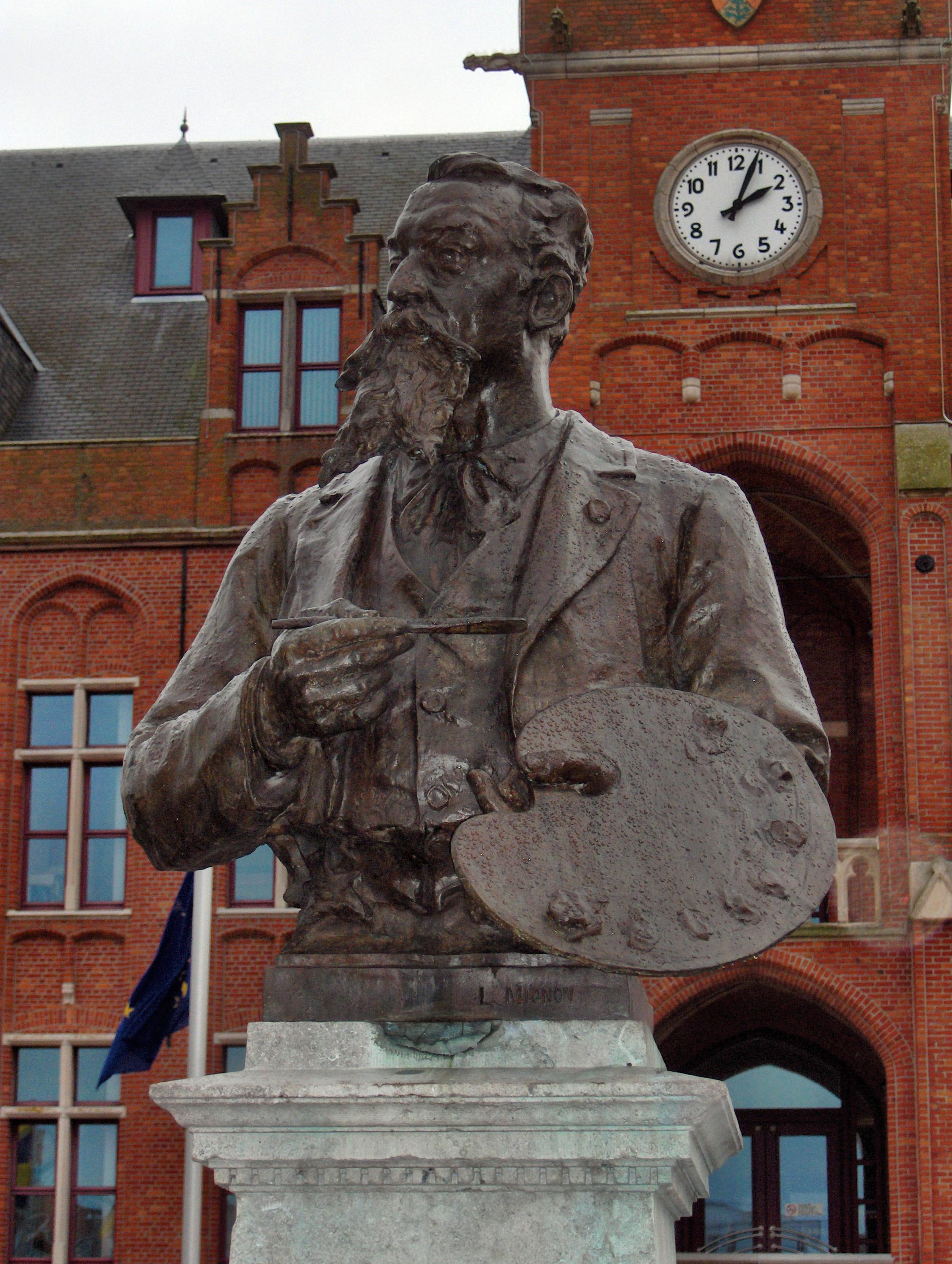 Bust of the painter Alfred Verwee by Leon Mignon (1896) in front of the neogothic town hall of Knokke-Heist, Belgium